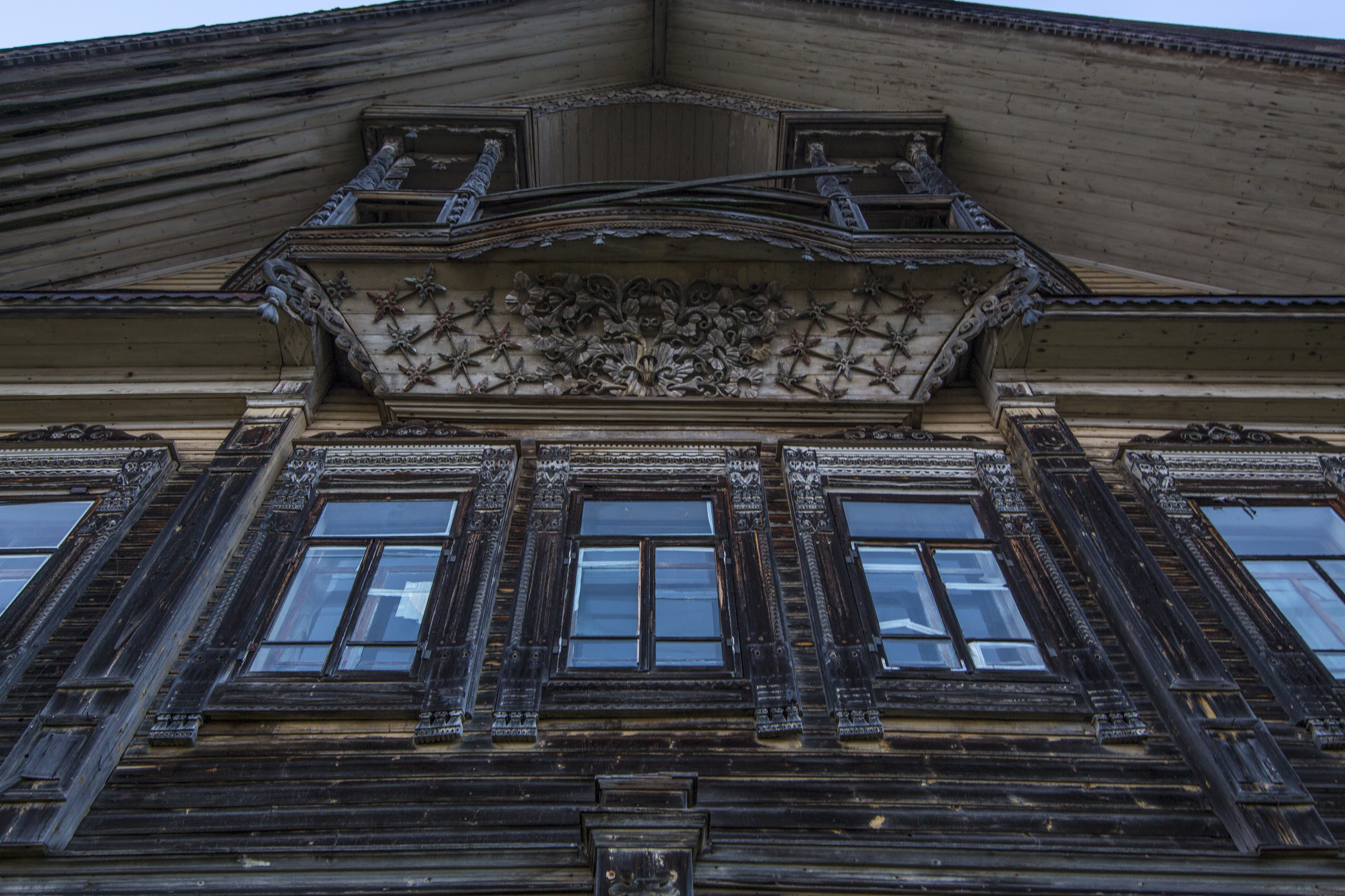 Village Cherevkovo, Arkhangelsk region, Russia. The house of merchant of the first Guild, M.S. Gusev, built in 1886.